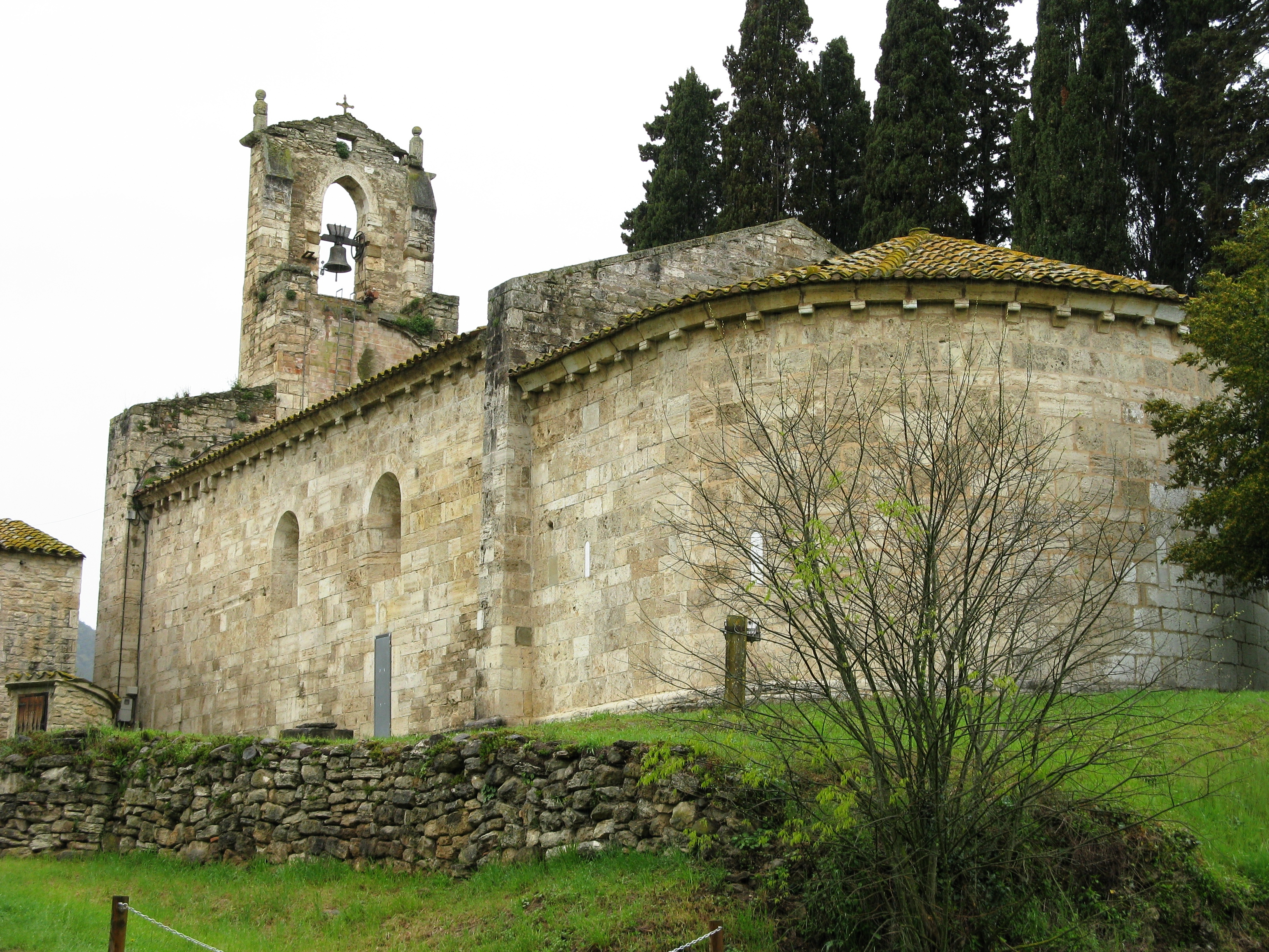 Romanesque church Santa Maria de Porqueres (12th century)